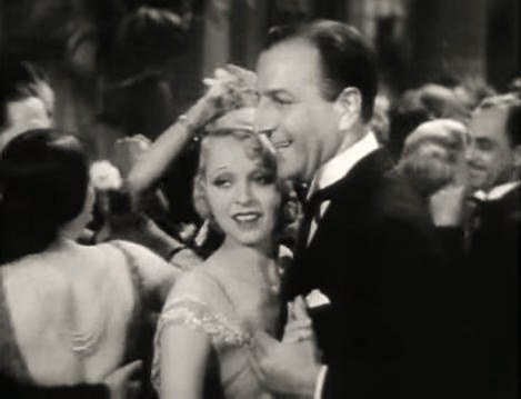 Noel Francis and Louis Calhern in Blonde Crazy - trailer (cropped screenshot)